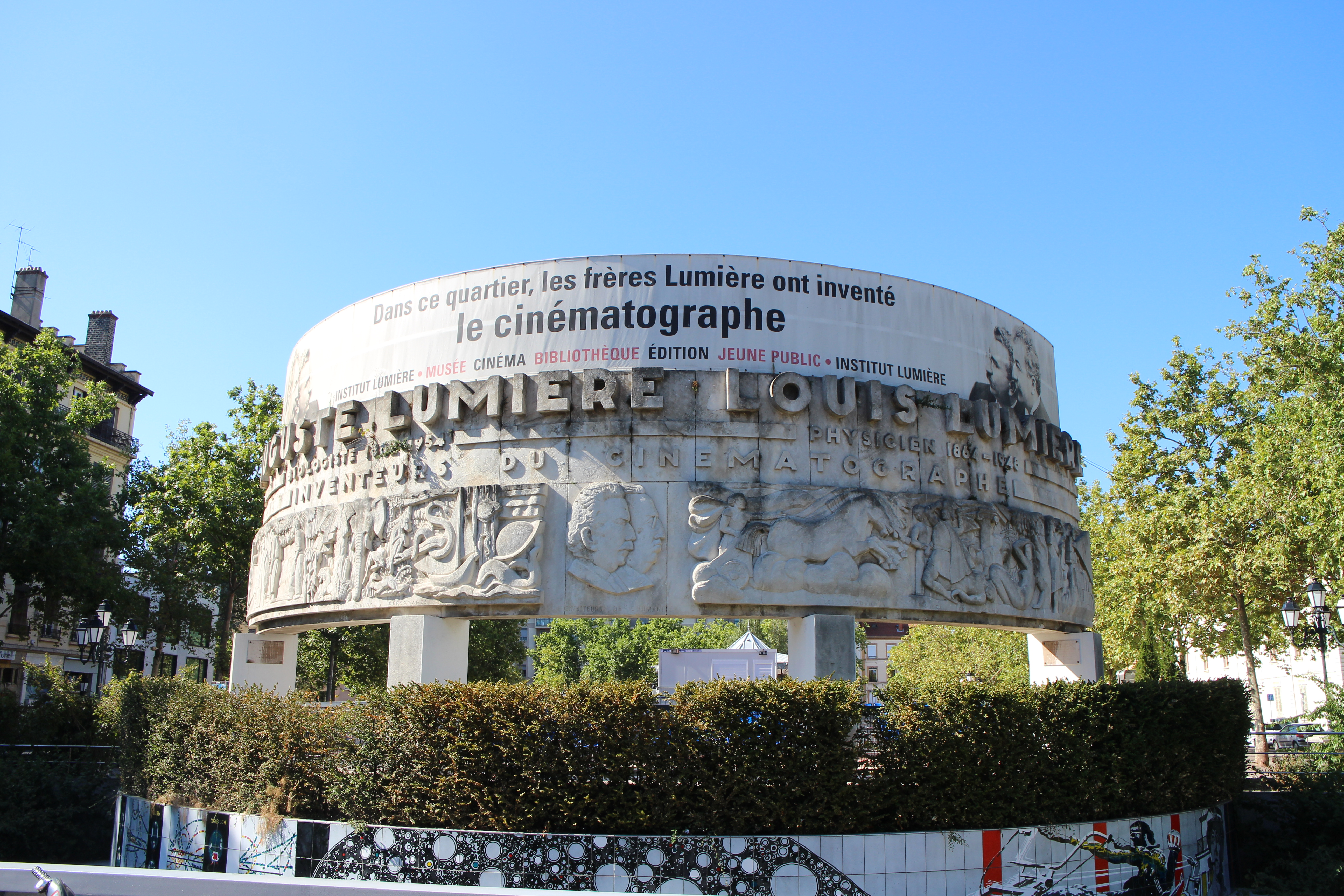 Institut Lumière